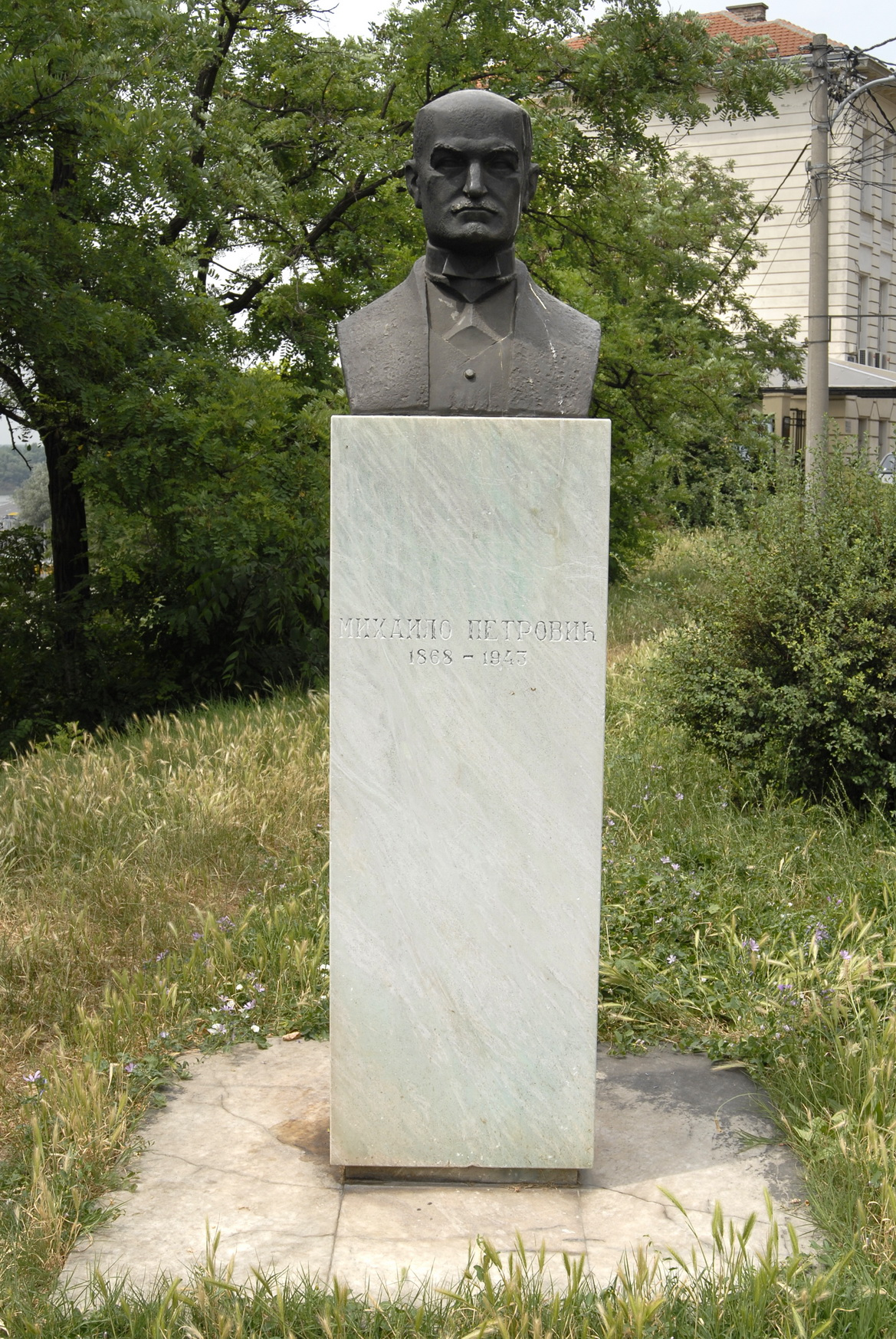 Bista Mike Alasa rad Aleksandra Zarina iz 1969. godine